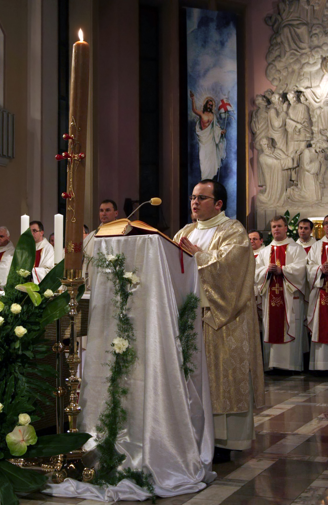 Deacon singing Exsultet during the Easter Vigil, Ołtarzew, Poland 2007